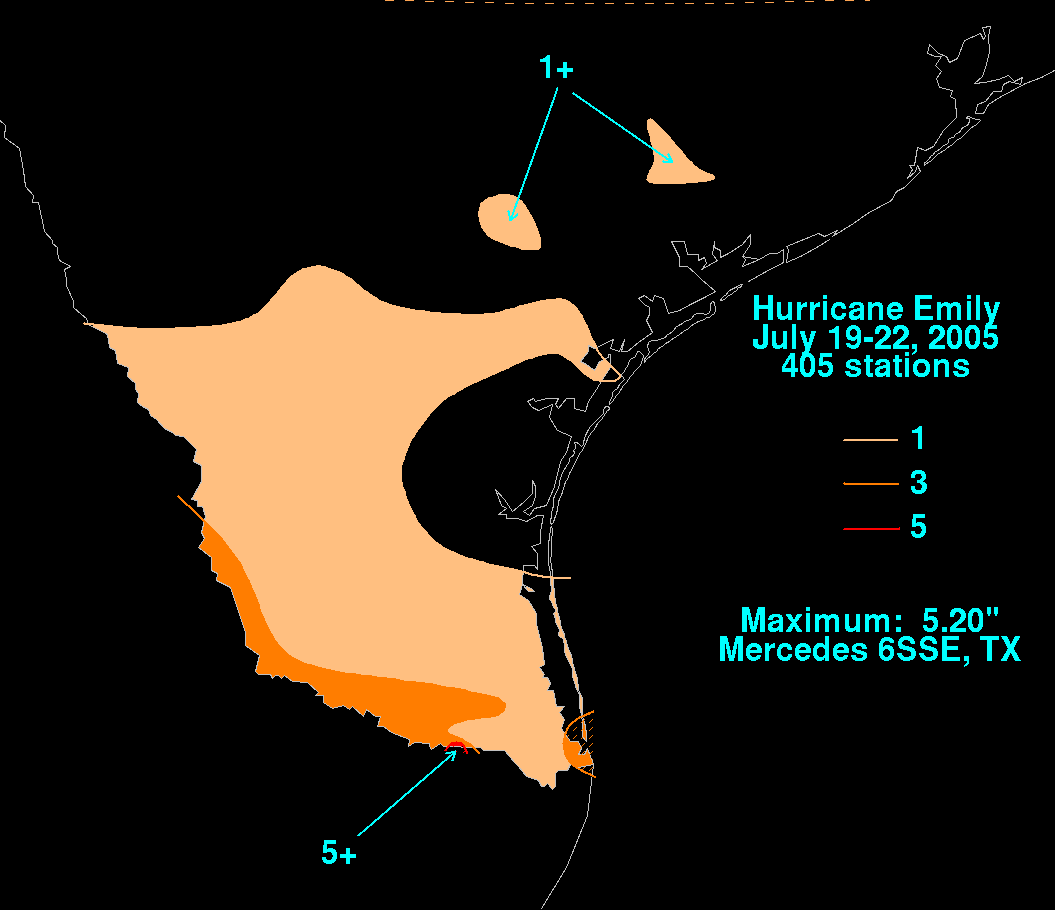 Rainfall produced by Hurricane Emily during July 2005.